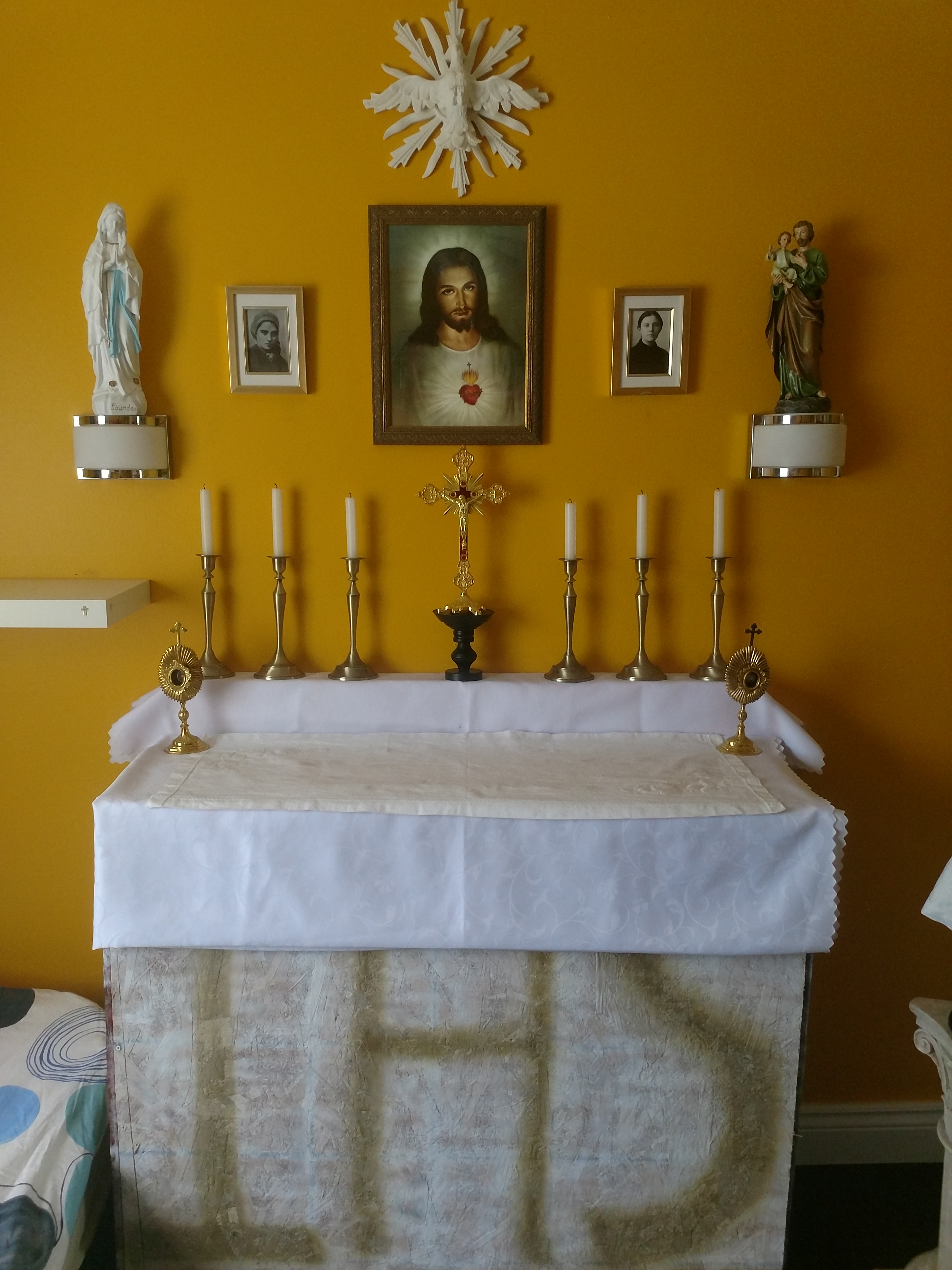 A homemade Tridentine altar made from wood in a traditional Catholic home.